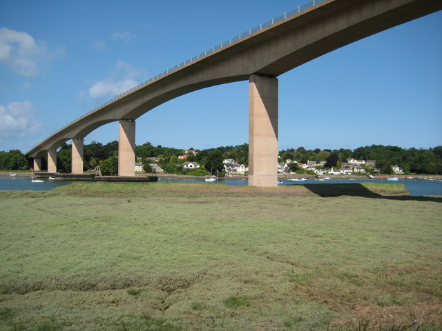 The Torridge Bridge The Torridge Bridge carries the A39 over the river to the north of Bideford; it was opened in 1987 and is 650m long.